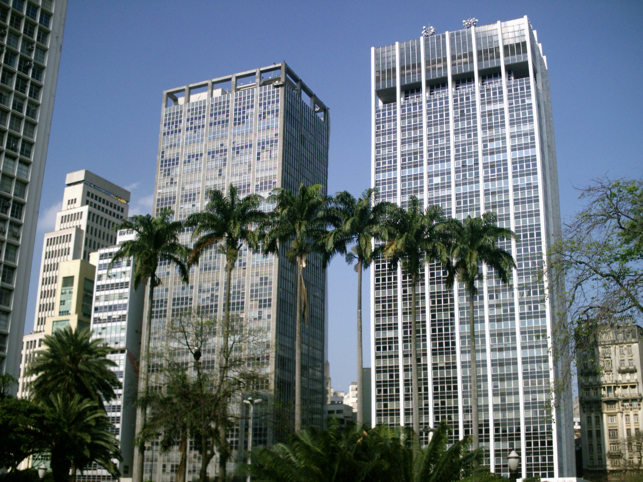 View of Buildings "Grande São Paulo" (1971) and "Mercantil Finasa" (1974)